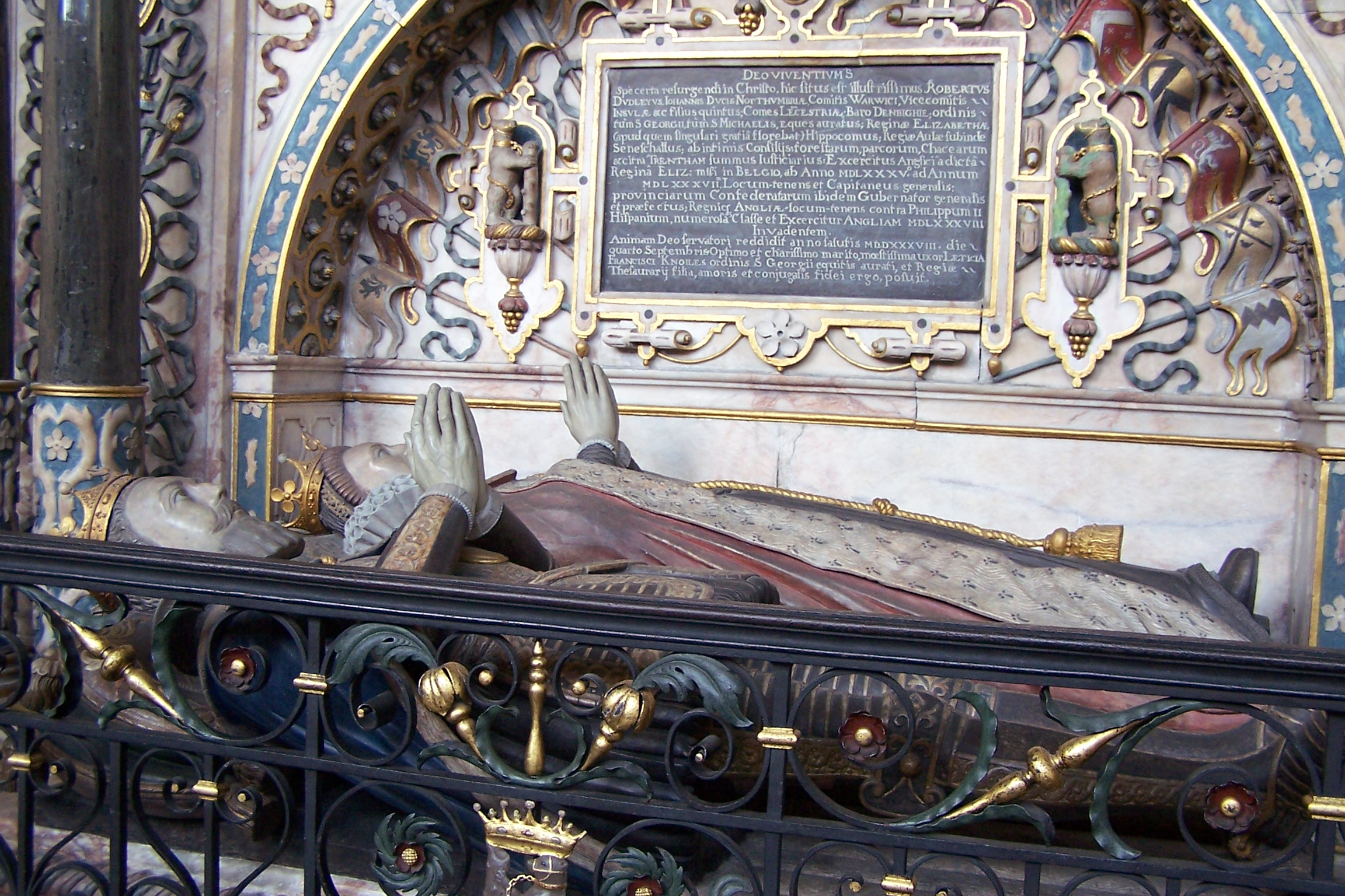 Sacred to the God of the living. In certain hope of rising again in Christ, here is placed the most famous Robert Dudley, fifth son of John, Duke of Northumberland, Earl of Warwick, Viscount Lisle, etc., Earl of Leicester, Baron Denbigh; Knight of both the orders of St. George and St. Michael; Master of the Horse of Queen Elizabeth (with whom he was distinguished with exceptional favor); thereafter Steward of the Royal Household; Privy Councillor; High Justiciar of the Forests, Parks, Chases, etc. on this side of Trent: Lieutenant and Captain-general of the English army sent into the Netherlands by the said Queen Elizabeth, from 1585 to 1587; Governor-general and Commander of the United Provinces of the Netherlands; and Lieutenant of the Kingdom of England against the Spaniard Philip II, when he was invading England in 1588 with a numerous fleet and army. He gave back his soul to God his savior in the year of salvation 1588, on the fourth day of September. His most sorrowful wife, Lettice, daughter of Francis Knollys, Knight of the Order of St. George and the Queen's Treasurer, placed [this monument] to her best and dearest husband on account of her love and faith as his wife.